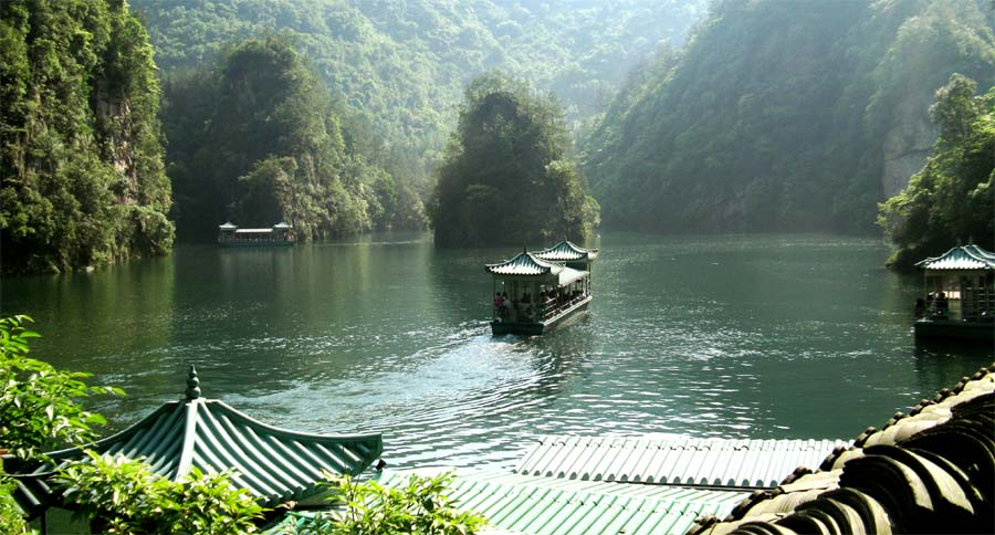 Baopeng Lake, Zhangjiajie